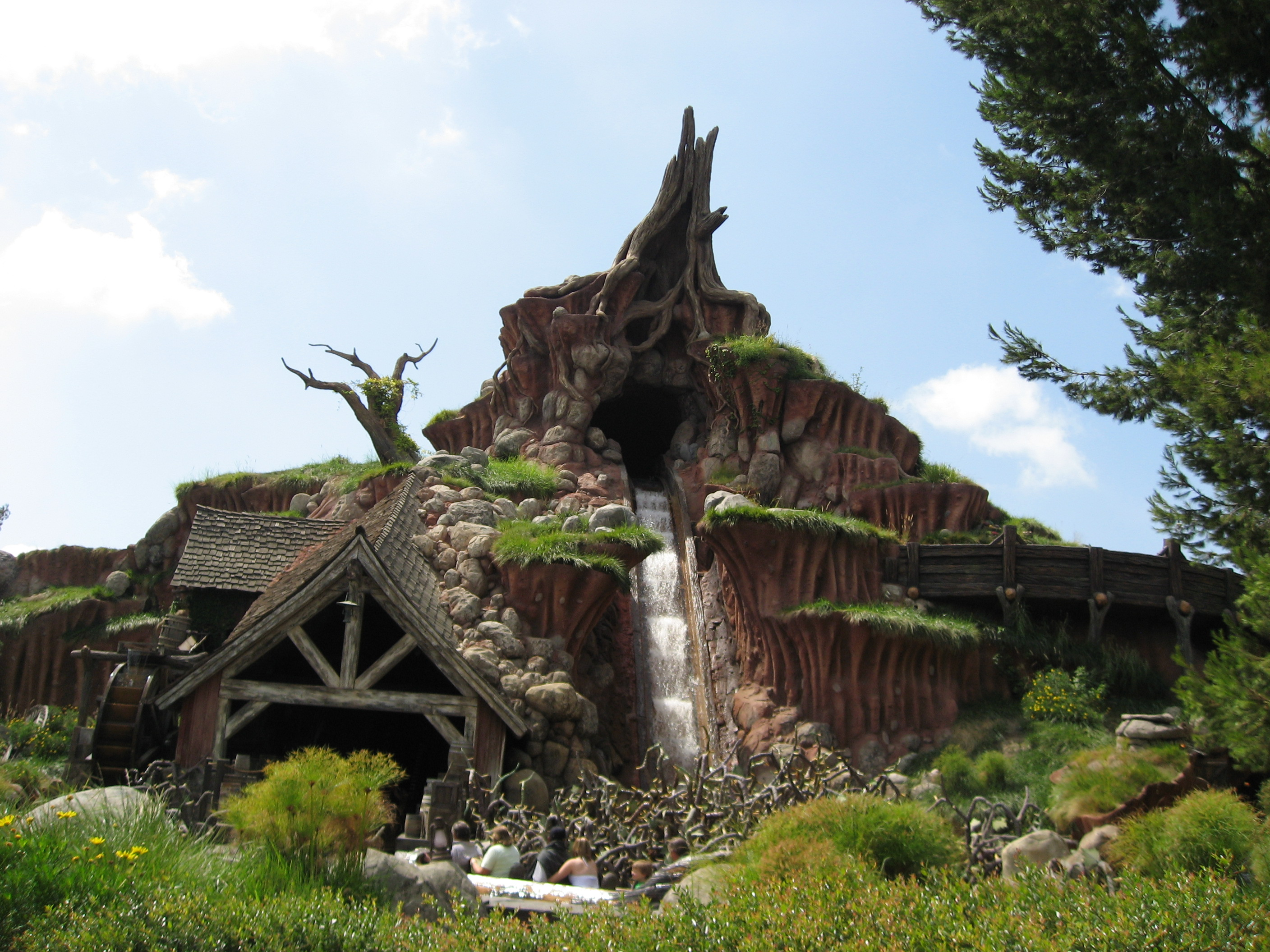 Splash Mountain exterior at Disneyland.